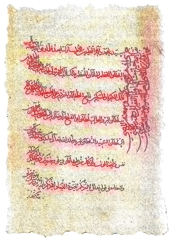 Last will of sultan Murad II to his son Mehmed that no dome should be built over his grave.